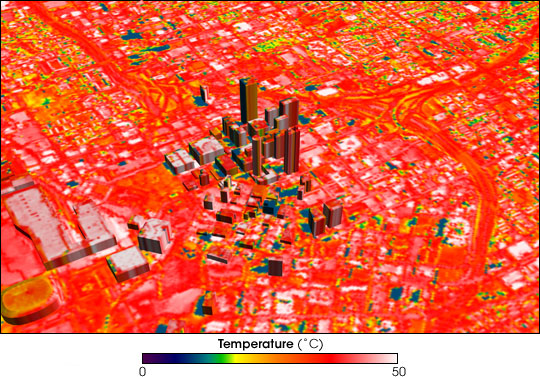 On May 11-12, 1997, NASA used a specially outfitted Lear Jet to collect thermal data on metropolitan Atlanta, Georgia. Nicknamed â€œHot-Lantaâ€ by some of its residents, the city saw daytime air temperatures of only about 26.7 degrees Celsius (80 degrees Fahrenheit) on those days, but some of its surface temperatures soared to 47.8 degrees Celsius (118 degrees Fahrenheit). In this image, blue shows cool temperatures and red shows warm temperatures. Pockets of especially hot temperatures appear in white. (Image courtesy NASA/Goddard Space Flight Center Scientific Visualization Studio.) Image obtained from NASA Earth Observatory webpage -- Ryanjo 00:48, 2 August 2006 (UTC)